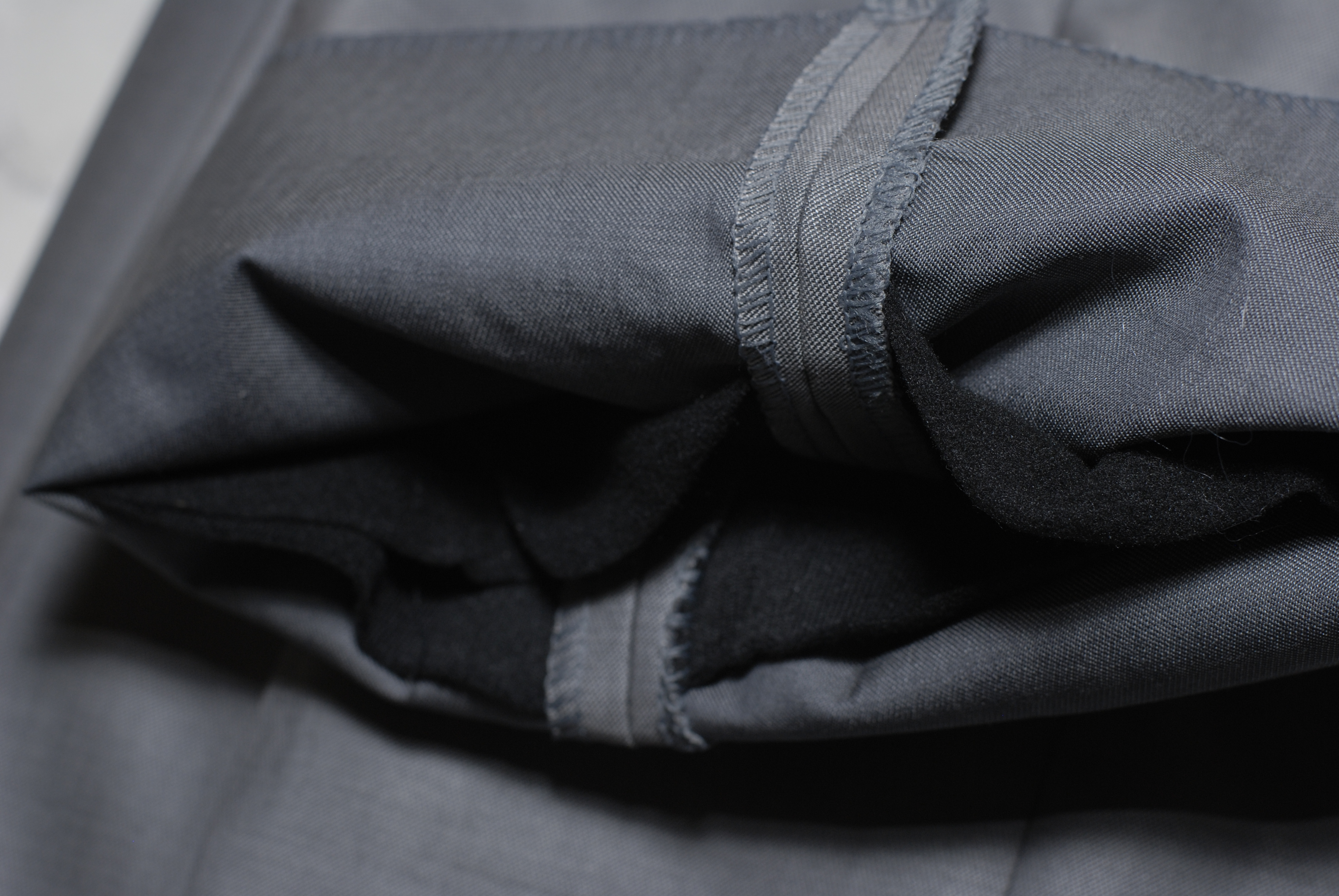 This is a closeup of the fleece interior of the pants, The shell is 100% woool, the fleece is 100% polyester